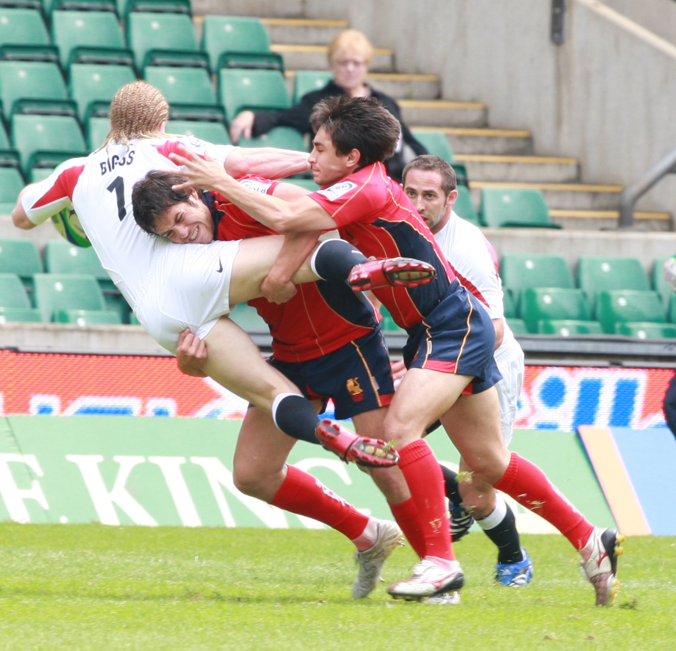 Photo of Martin Heredia in the IRB London World Seven Series